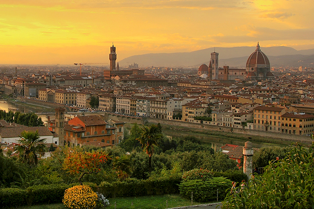 A view of Florence, Italy at sunset.